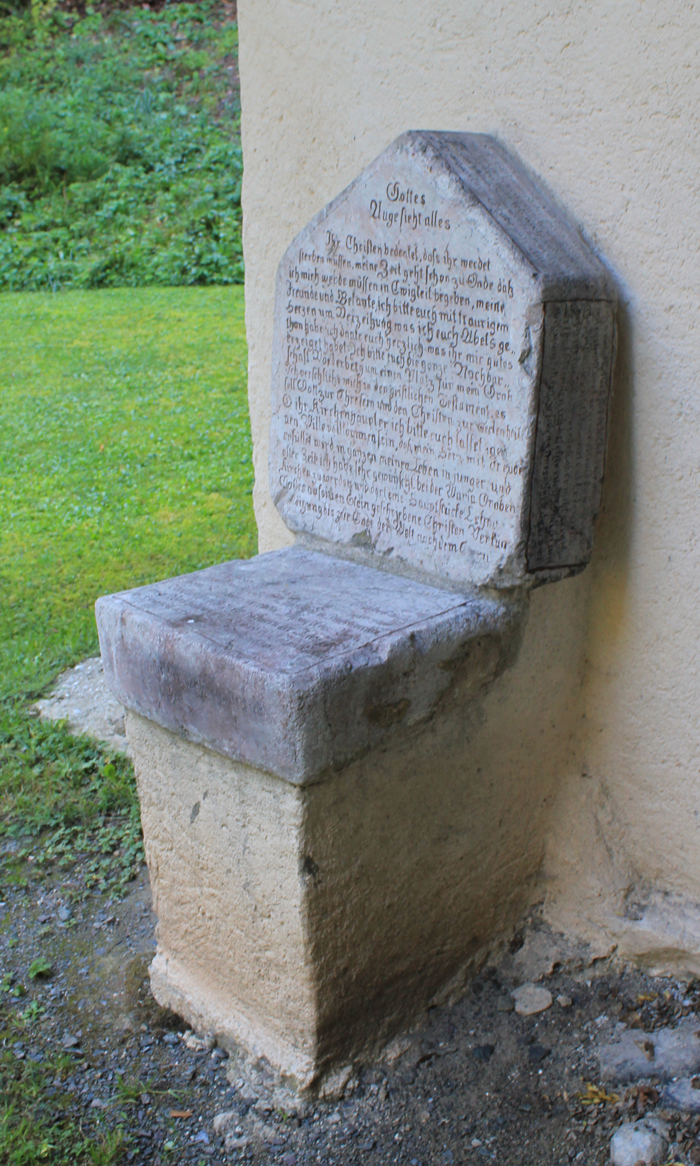 Subsidiary church “Mary in the Gorge” in Vorderberg in the community Sankt Stefan im Gailtal